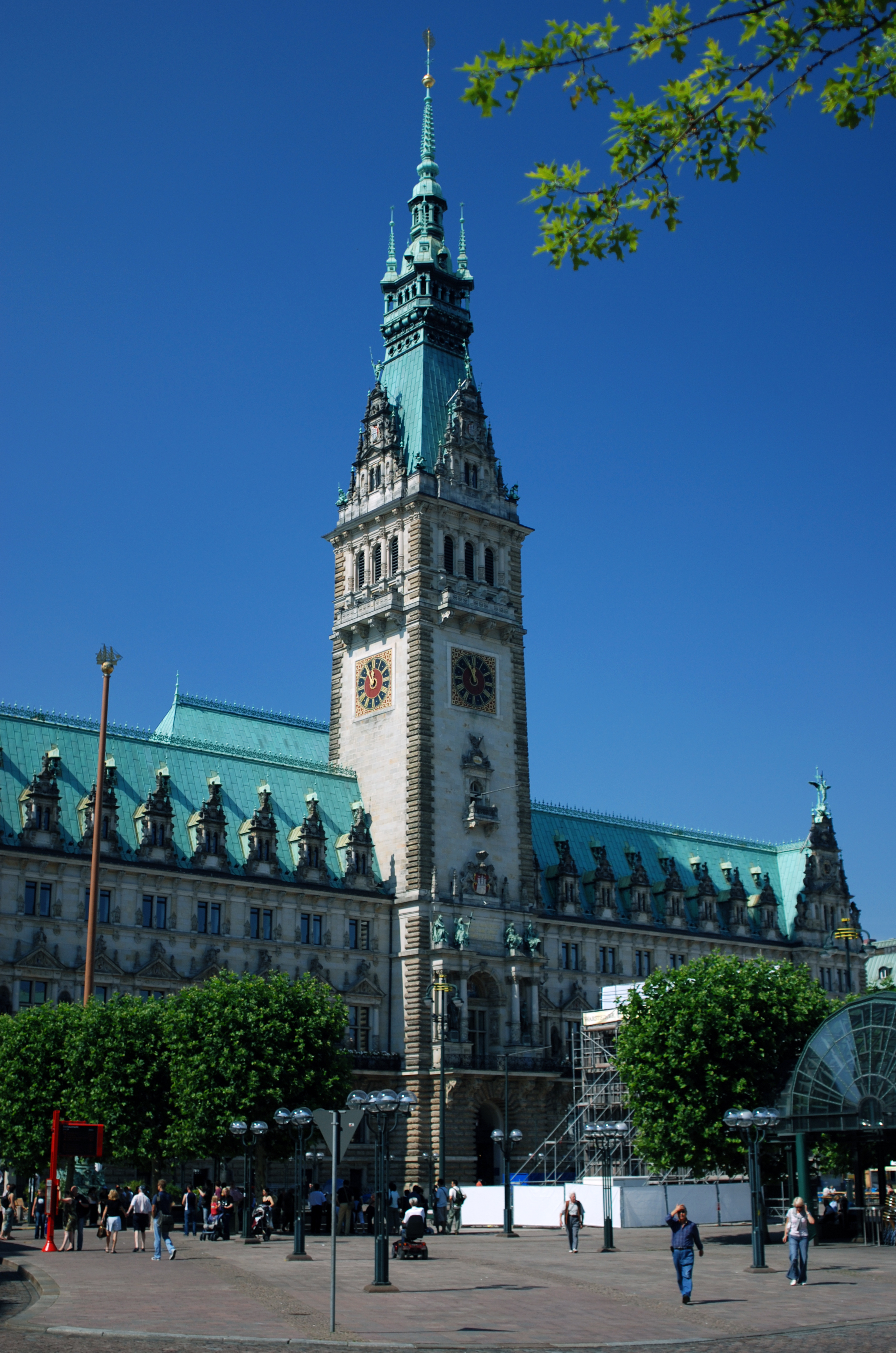 Hamburg City Hall This is a photograph of an architectural monument. , 12254